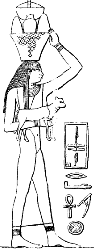 Personified agricultural estate of pharaoh Djedkare Isesi as depicted on the south wall of the tomb of Ptahhotep II in Saqqara.